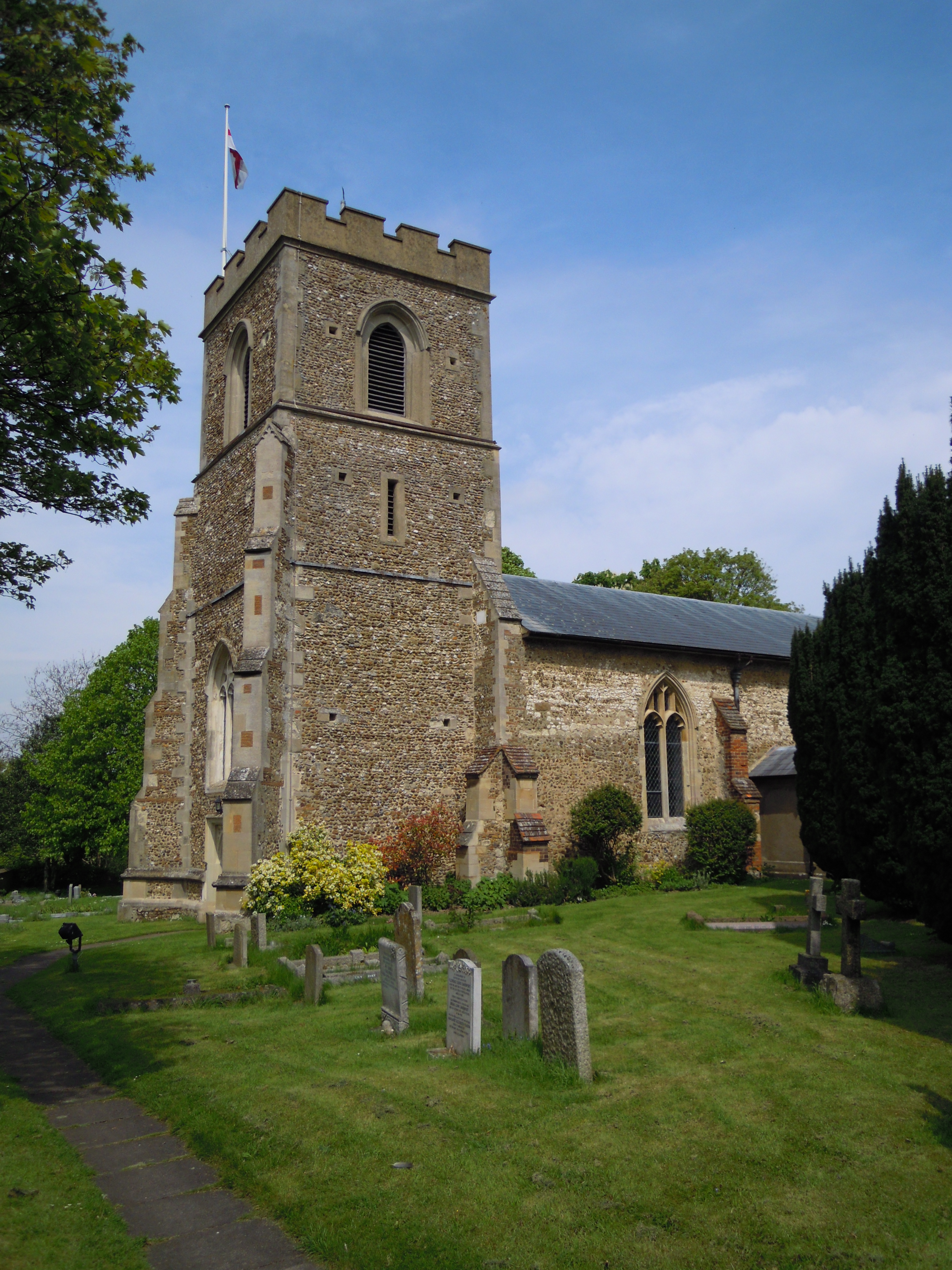 The 15th century tower of Church of St Nicholas in Norton